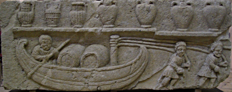 bas-relief depicting the transport of wine across the Durance river during the roman era.